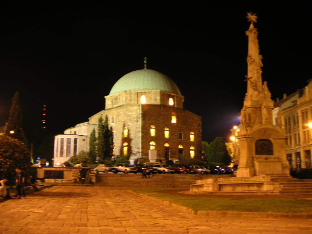 Photo: Bengt Olof Åradsson